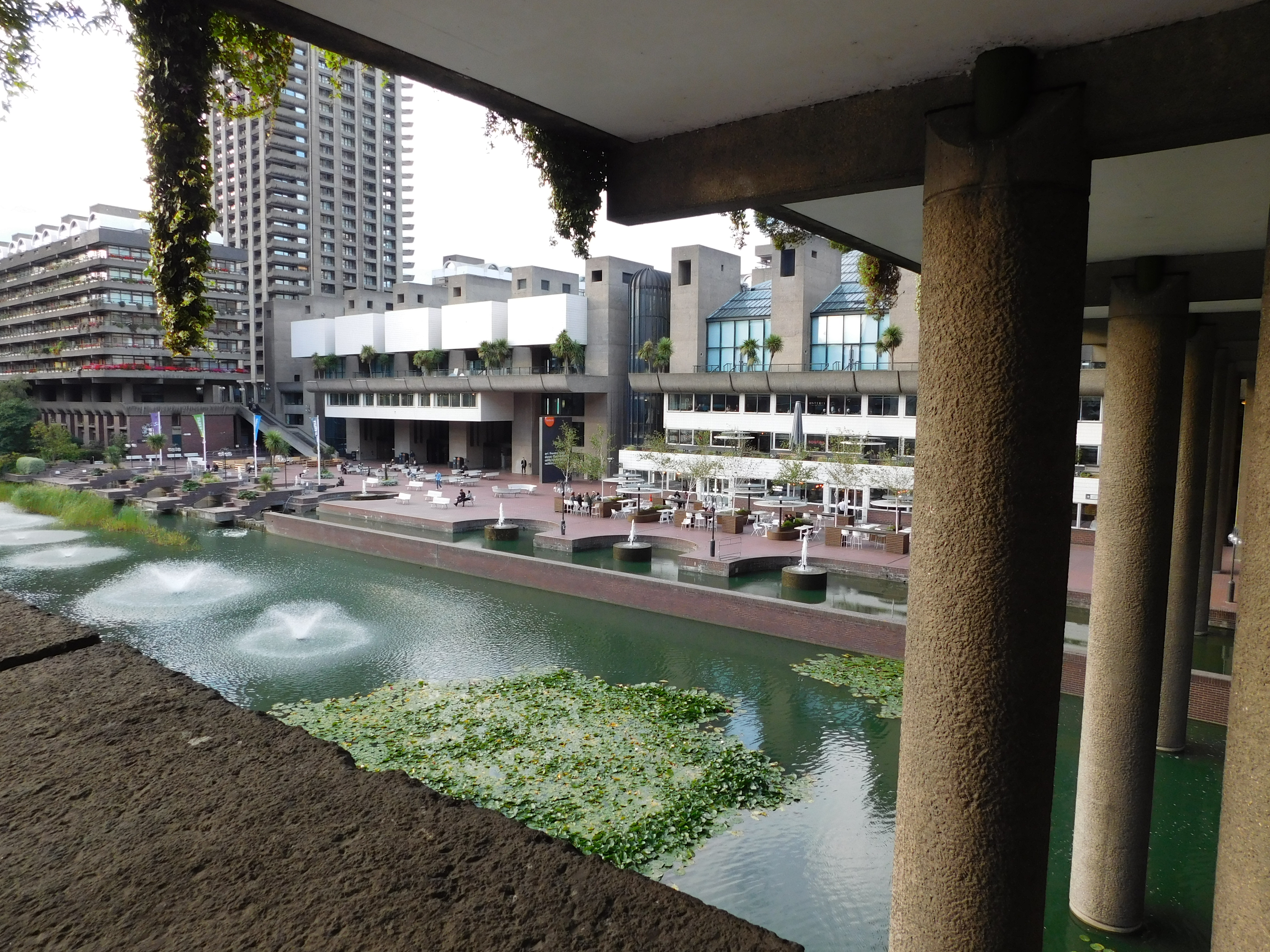 Barbican Estate Wikidata has entry Q2319878 with data related to this item.